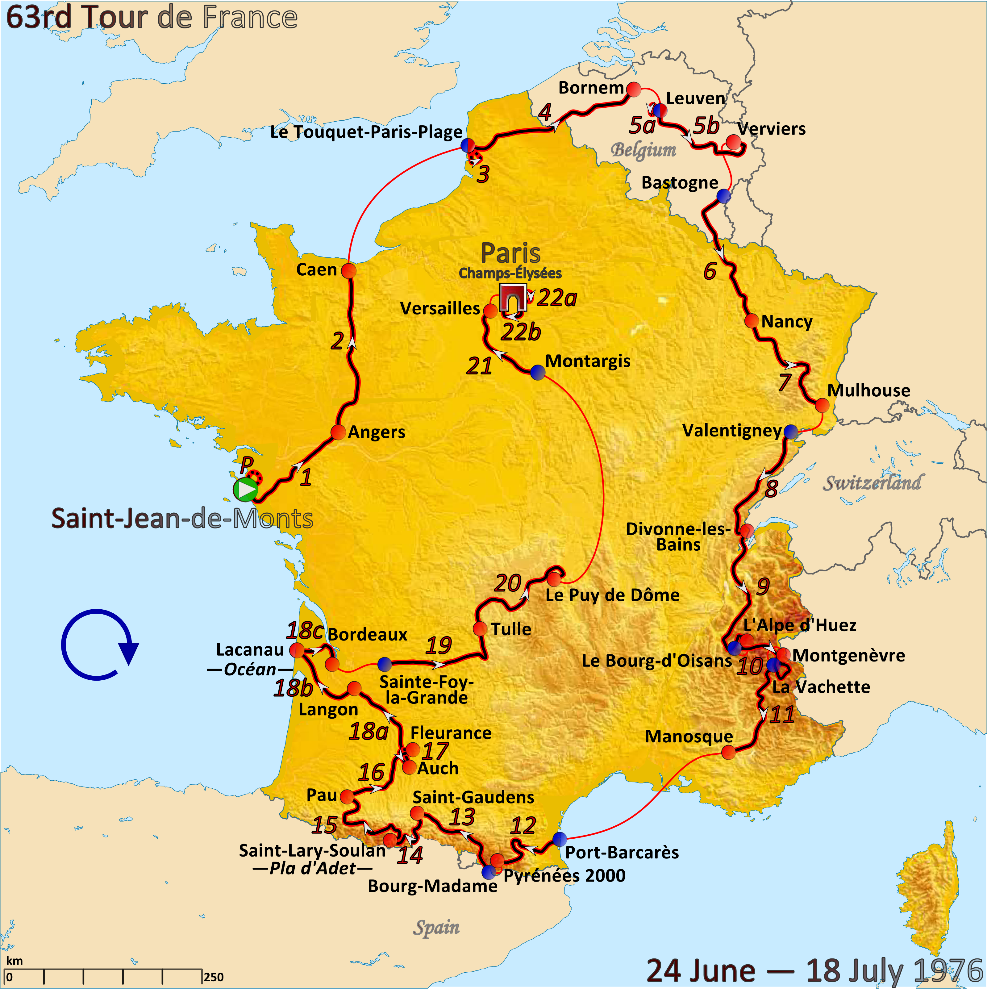 Map of the 1976 Tour de France created in Inkscape using accurate stage maps obtained from touratlas.nl.